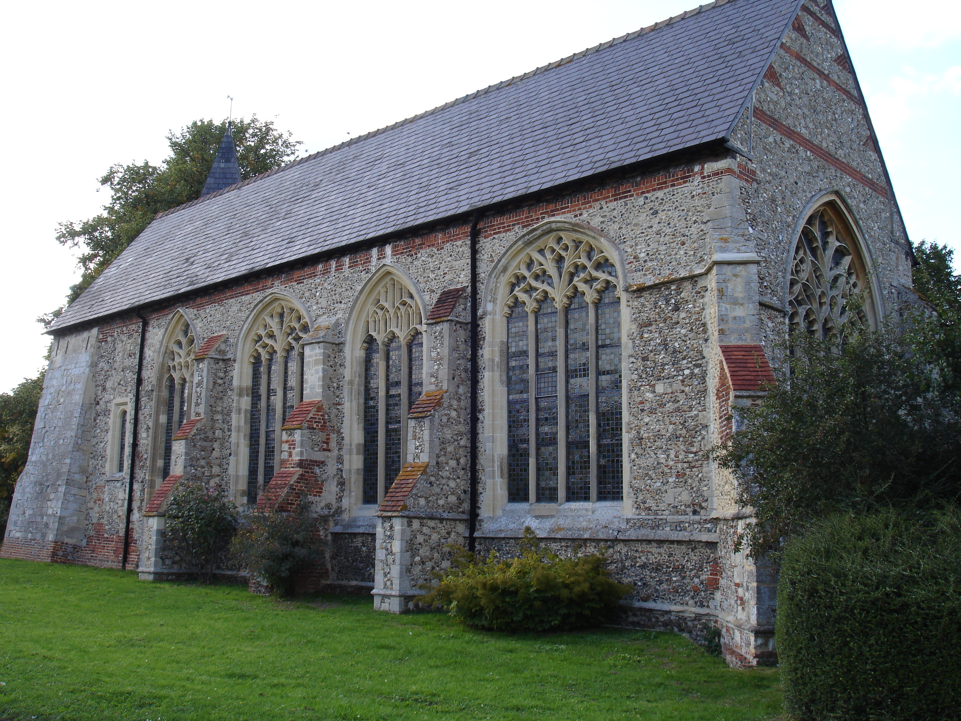 Photograph of the Parish Church of St Mary the Virgin, Little Dunmow, Essex, probably the lady chapel of the priory church